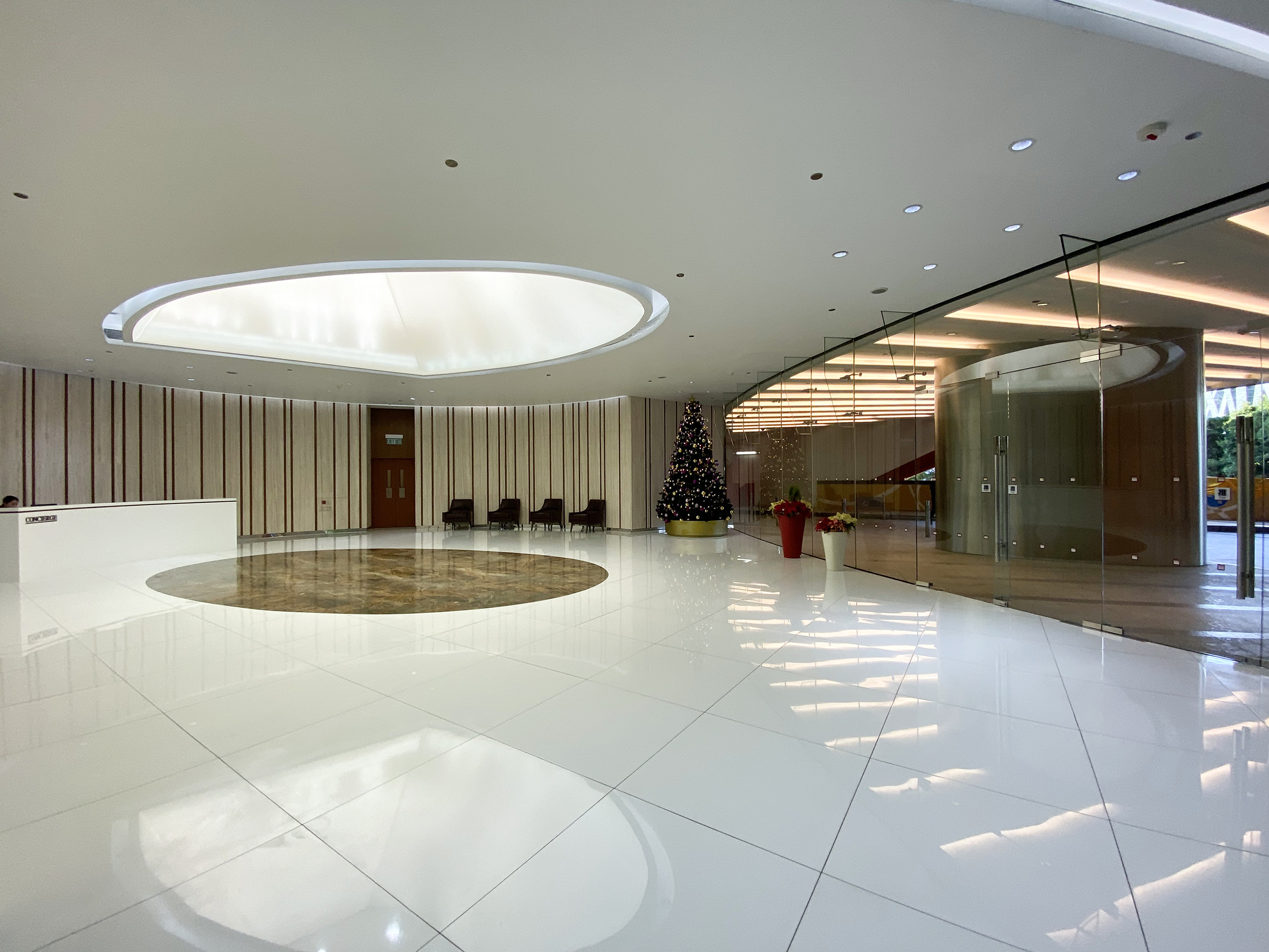 Enterprise Square Five Tower Tower 2 lobby